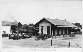 Pickering Valley Railroad, Kimberton, Pennsylvania, station